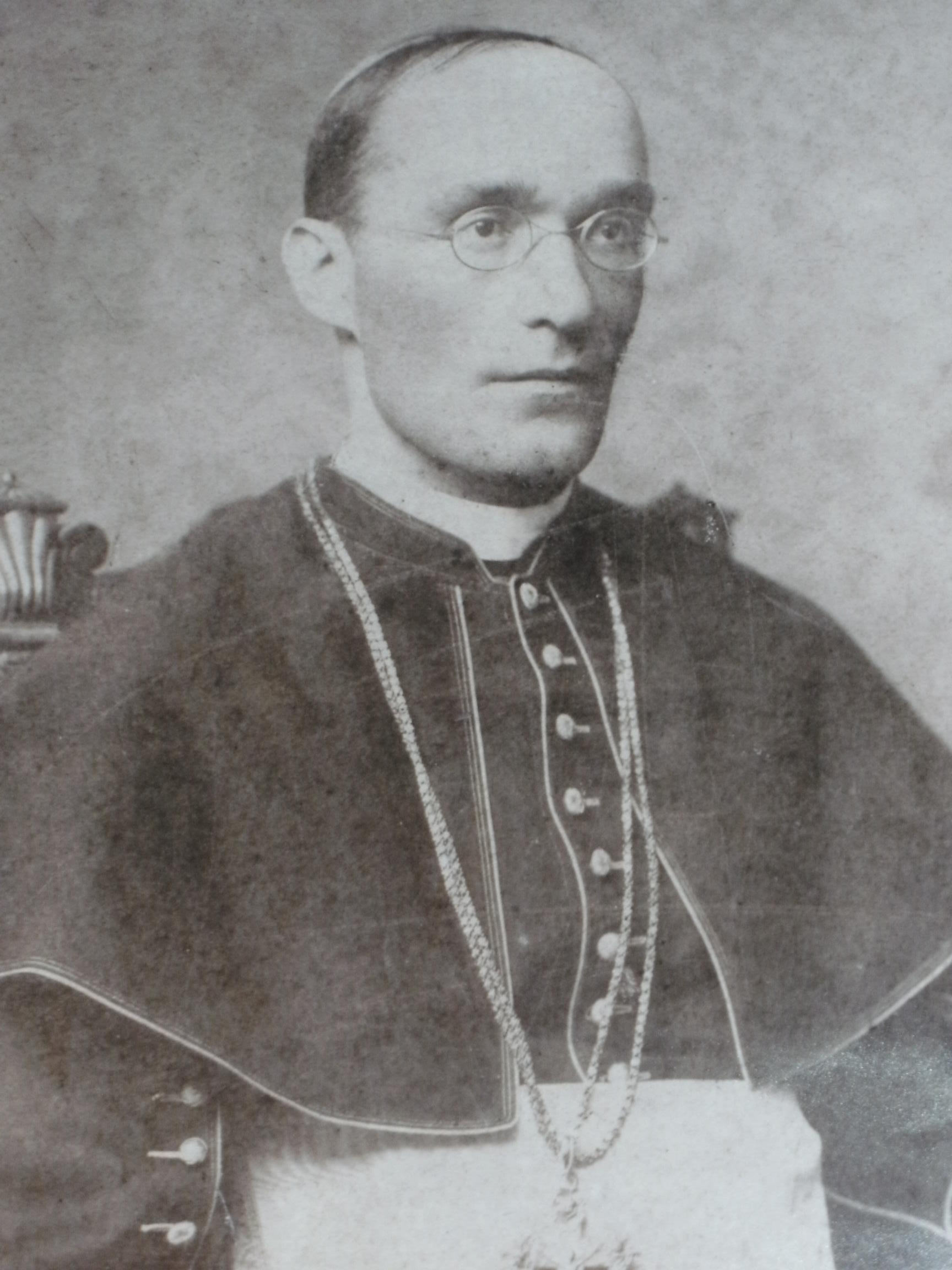 bishof dr. Mihael Napotnik (1850-1922)